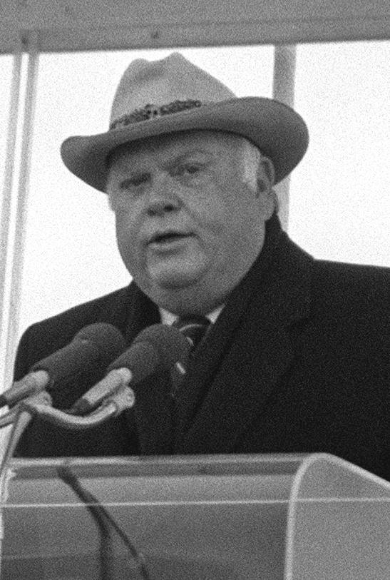 "Ned R. McWherter, governor of Tennessee, speaks at the commissioning ceremony for the nuclear-powered fleet ballistic missile submarine USS TENNESSEE (SSBN 734). The TENNESSEE, which is being commissioned at the Naval Underwater Systems Center, is the first submarine equipped to carry the new Trident II D-5 missile. Location: NEW LONDON, CONNECTICUT (CT) UNITED STATES OF AMERICA (USA)"